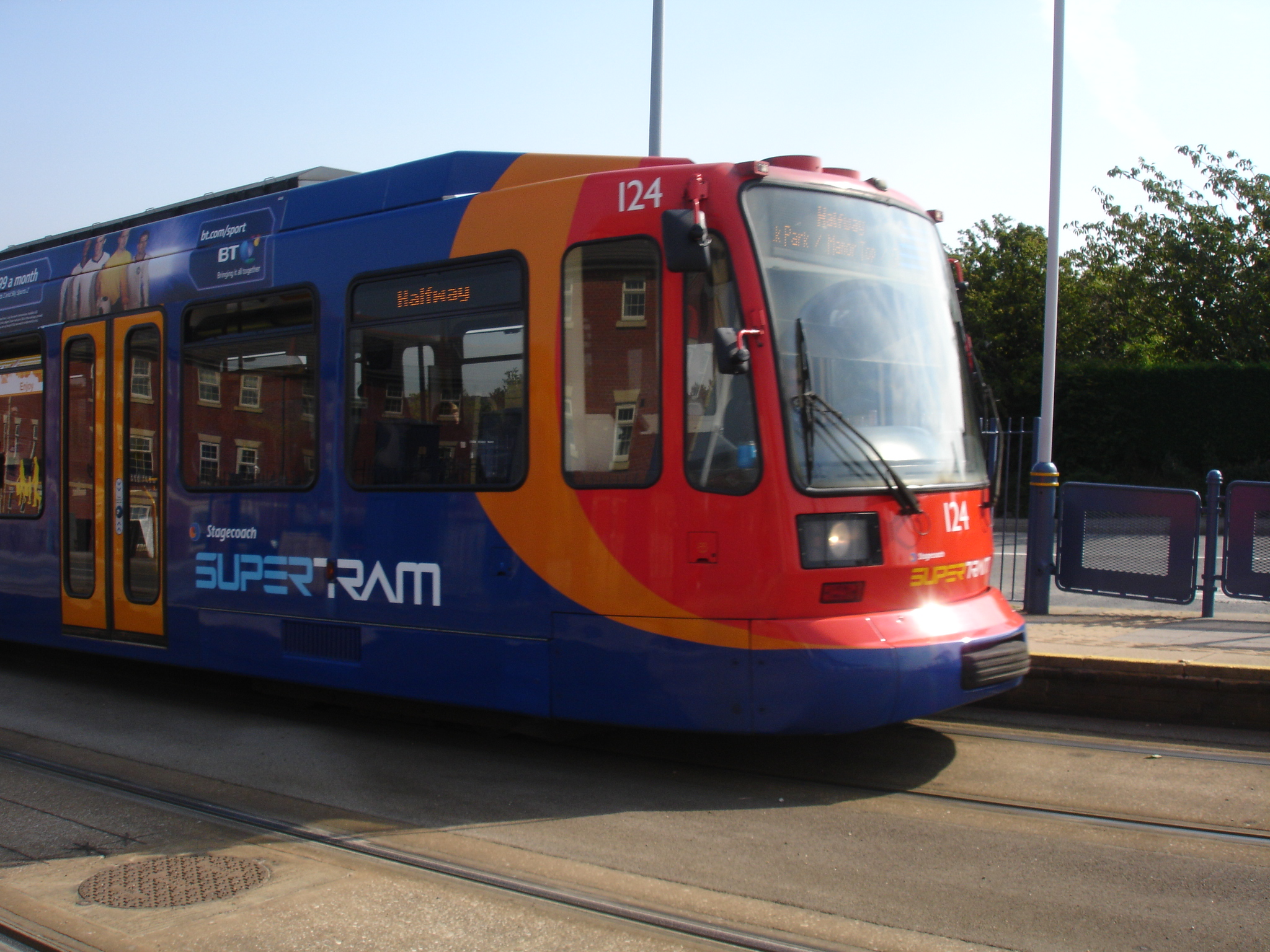 Supetram number 124 at Gleadless Townend tram stop, Sheffield, UK.